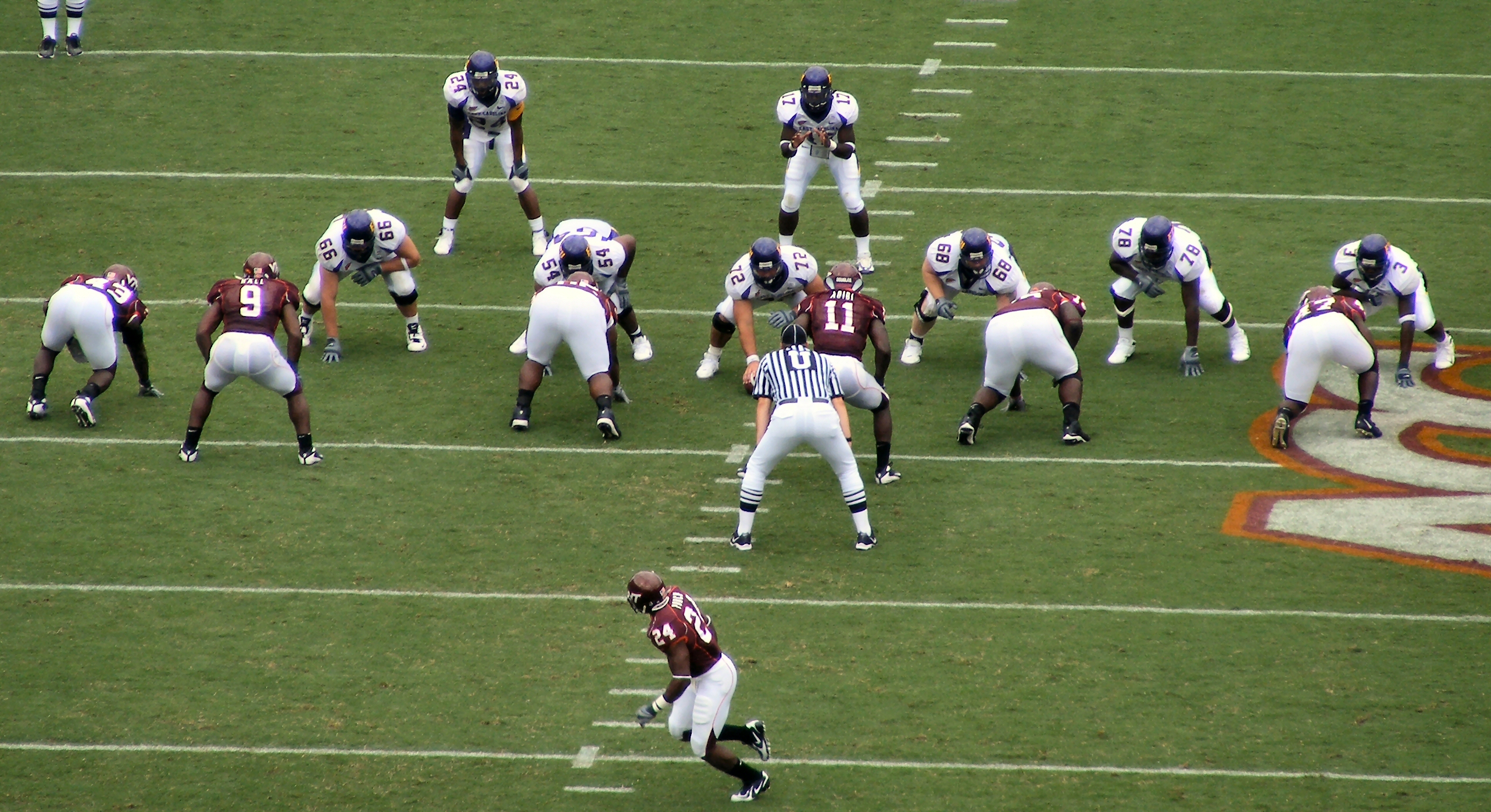 The East Carolina University Pirates travel to Blacksburg, Virginia to take on the 2007 Virginia Tech Hokies football team